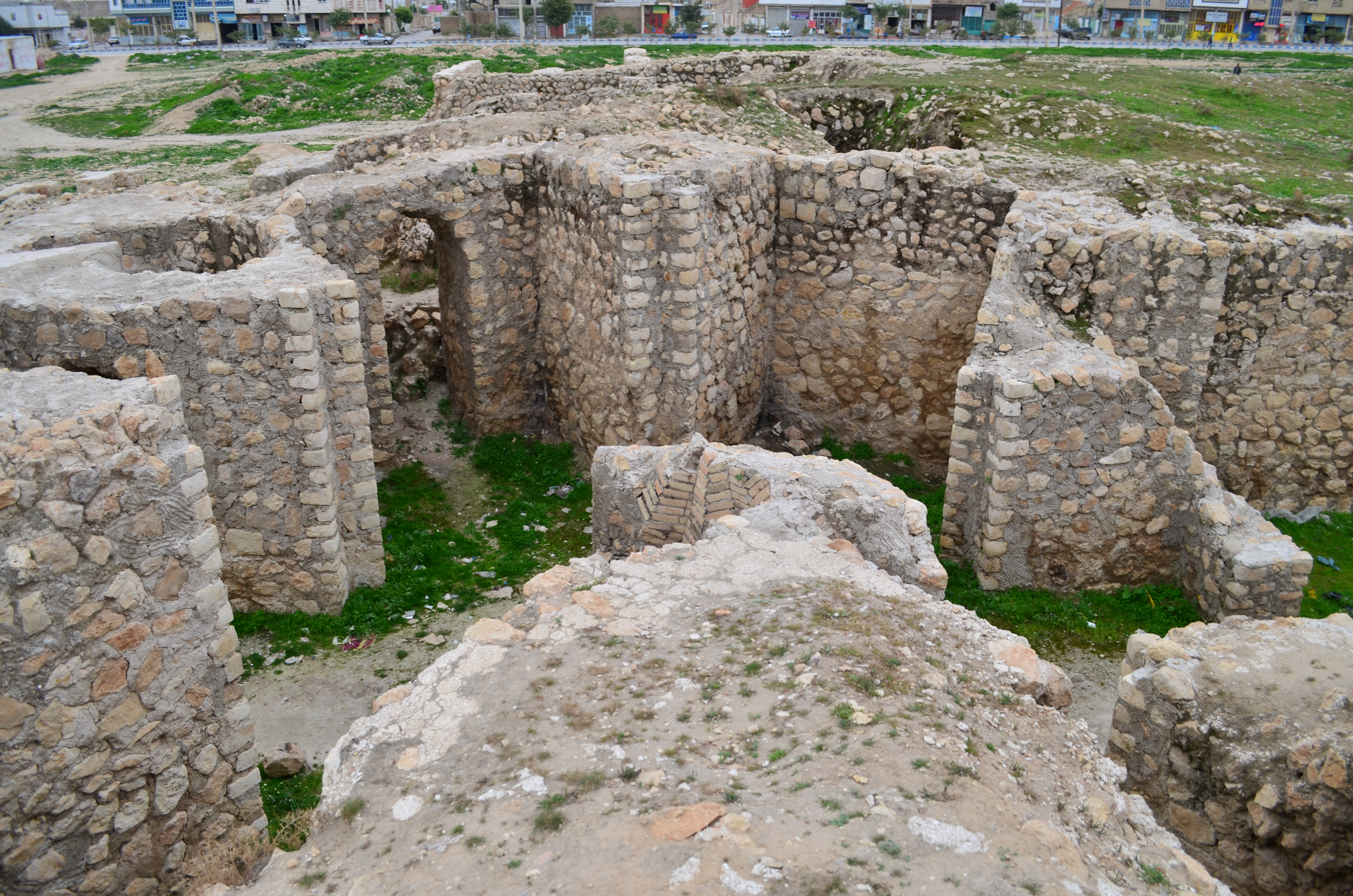 Tagh-e Tavileh